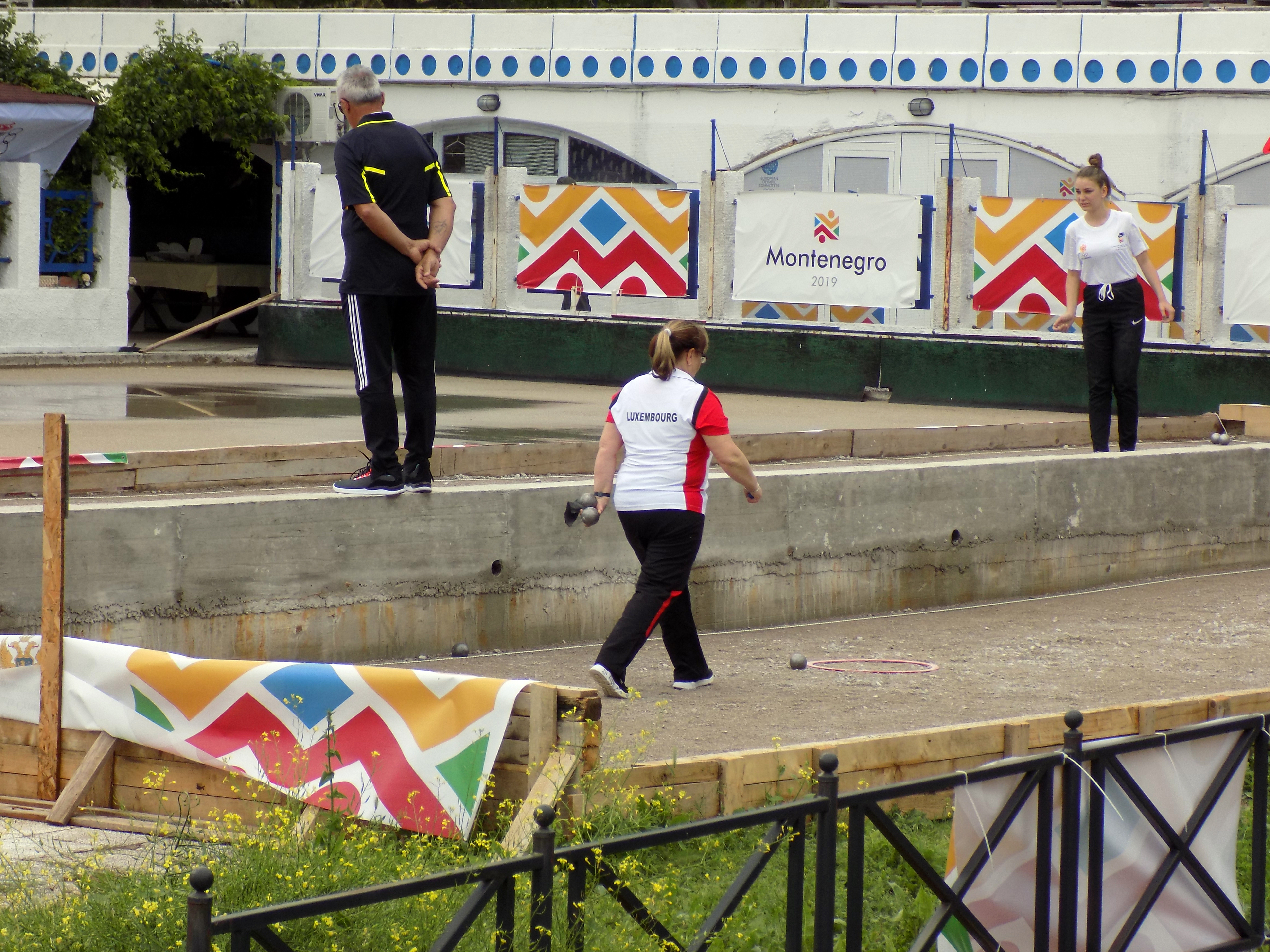 Boules on 2019 Games of the Small States of Europe (May 29, Budva, Montenegro)